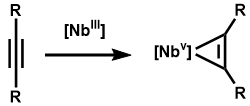 NbIII alkyne complex